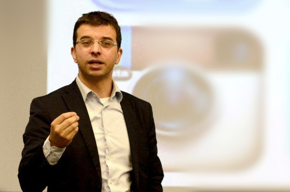 Liran Dan, former spokesman for the Israeli Prime Minister.